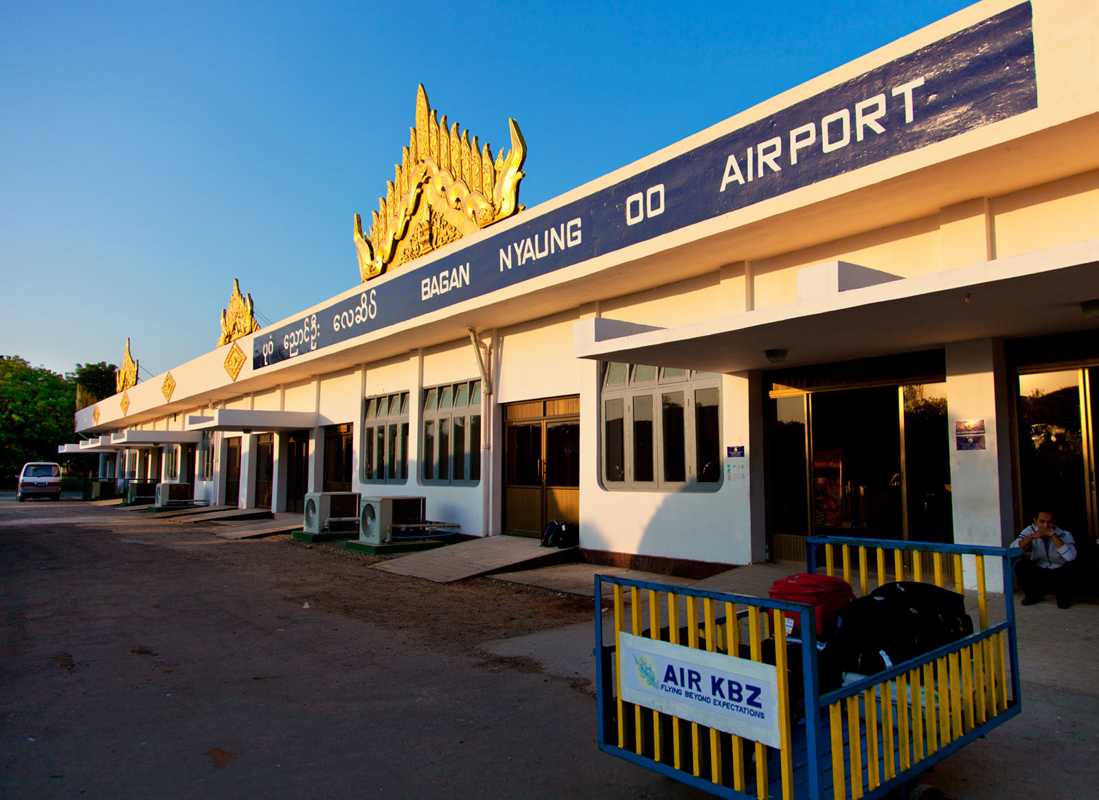 Bagan Airport at sundown.